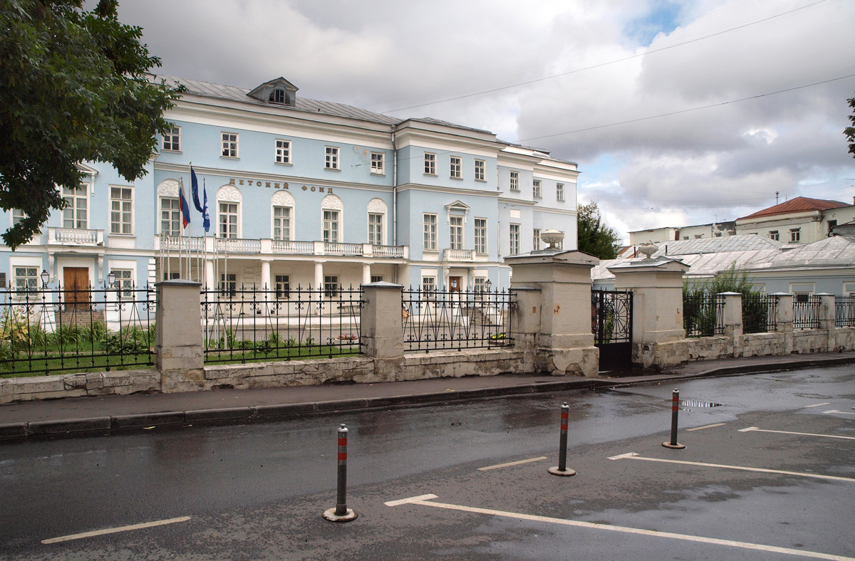 I. S. Gagarin house in Moscow. Built in the 1790s by Matvey Kazakov.